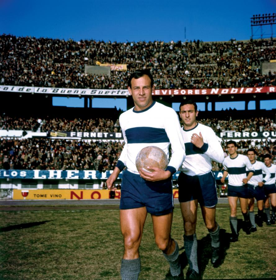 Gimnasia y Esgrima LP team entering the pitch of "Estadio Monumental", with Alfredo Rojas leading.